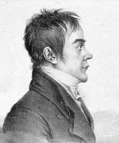 French composer Domenico Della Maria (1769-1800)